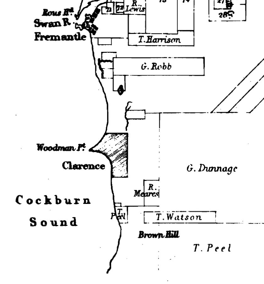 Map extending from Fremantle harbour to Rockingham, showing land grants given to settlers by 1833, four years after the founding of the Swan River colony.